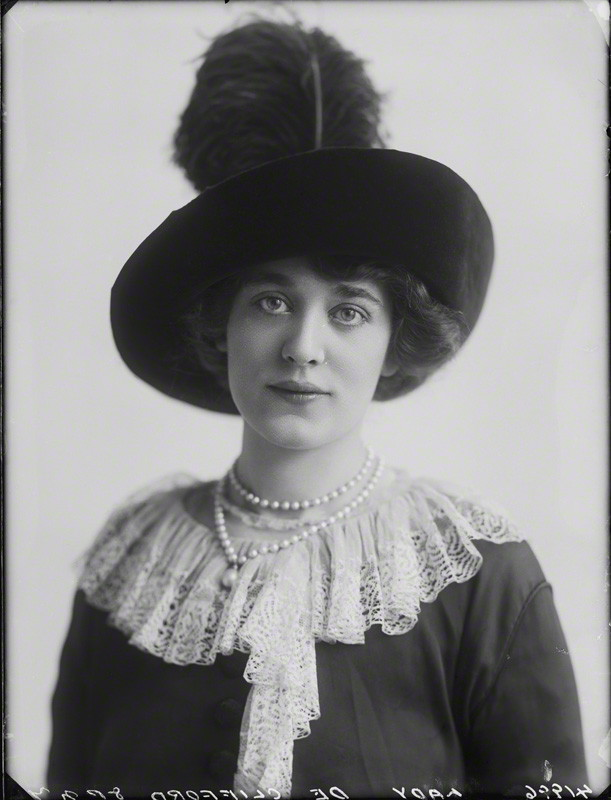 by Bassano Ltd, whole-plate glass negative, 1913